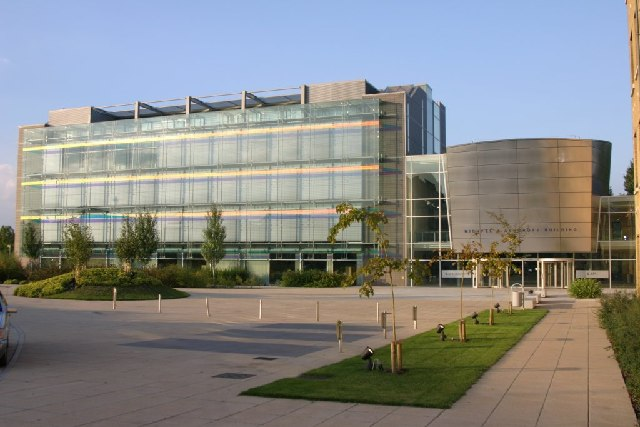 Anglia Ruskin University. The Michael A Ashcroft Building opened in 2004.